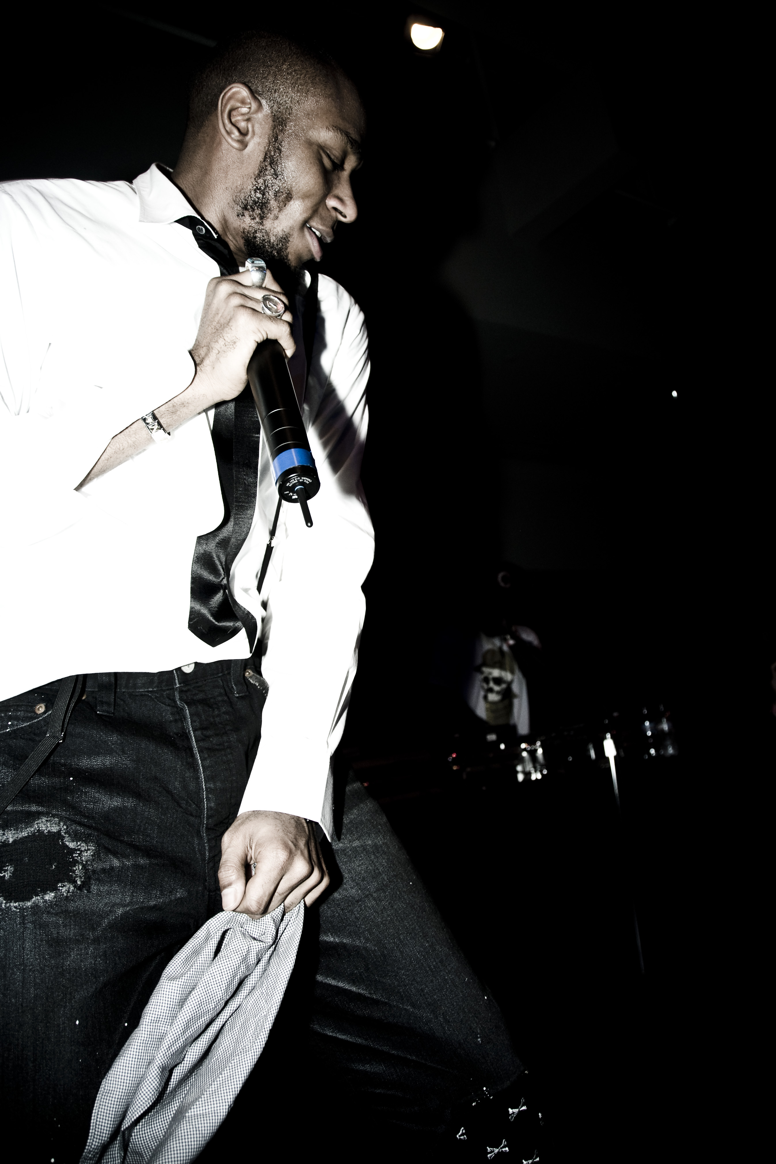 Mos Def performing at the YBCA in San Francisco on New Year's Eve, December 2008